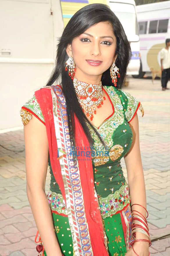 Rucha at STAR Plus Dandia Shoot